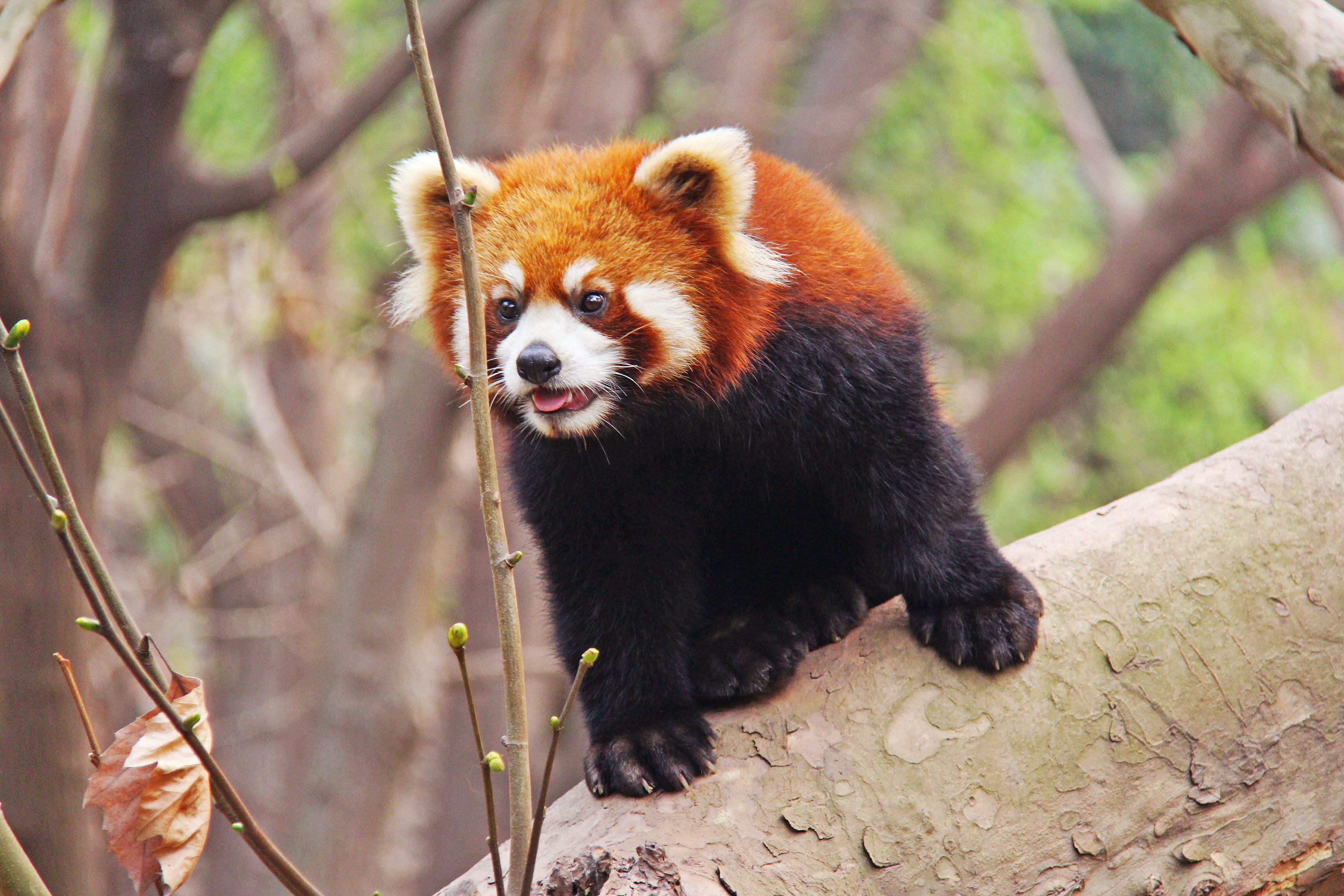 Red panda (Ailurus fulgens) in Chengdu